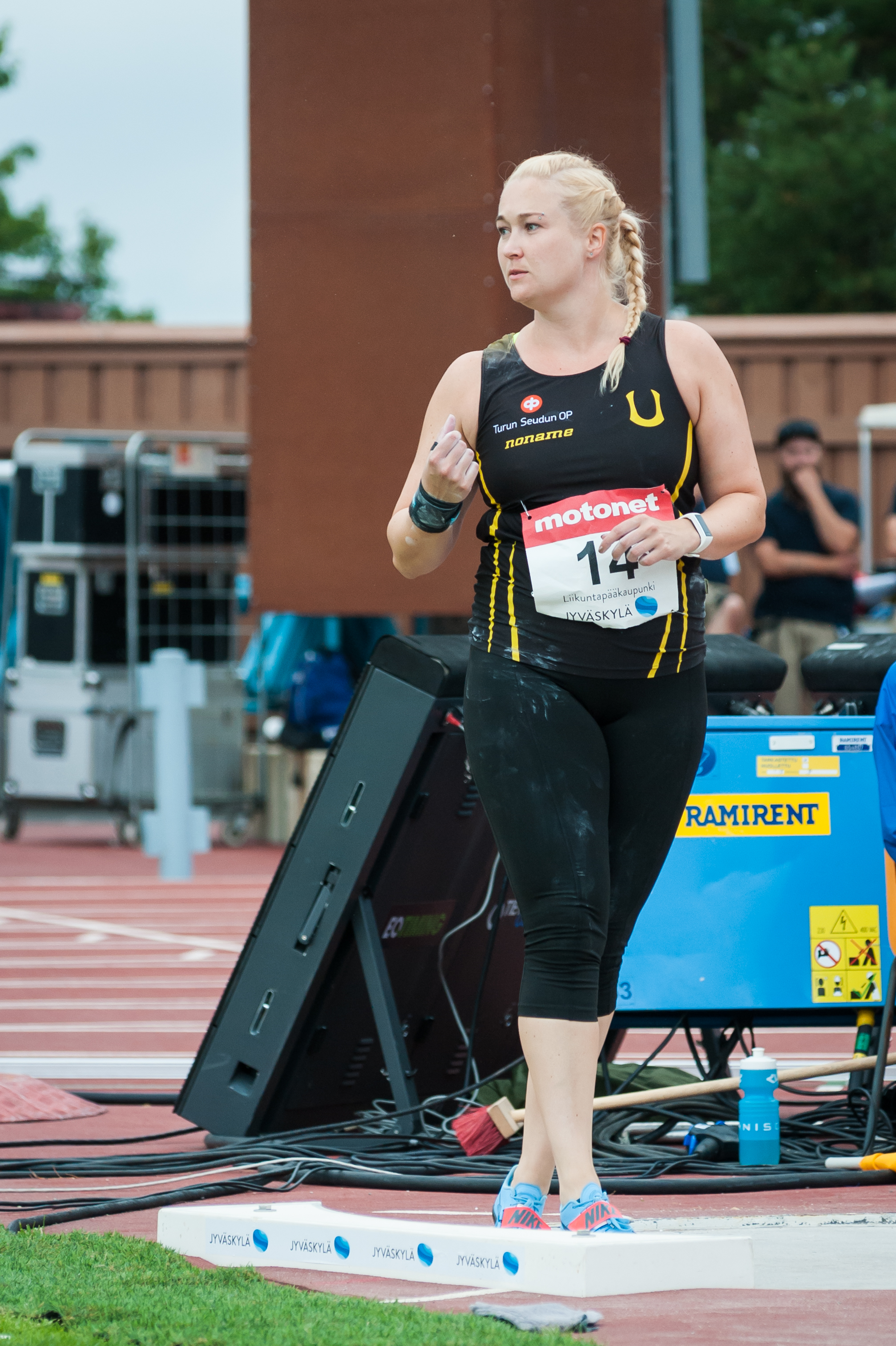 Women's shot put competition at the 2018 Kalevan Kisat, the Finnish championships in athletics, in Jyväskylä, Finland.